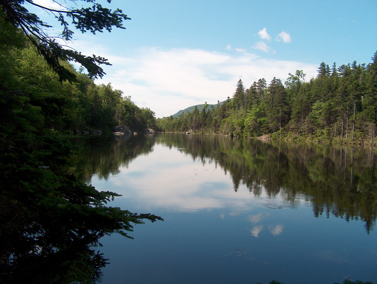 Lost Pond in Pinkham Notch, New Hampshire. Photo by Eric Gallager, June 25, 2006.